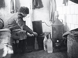 Preparation of the samogon